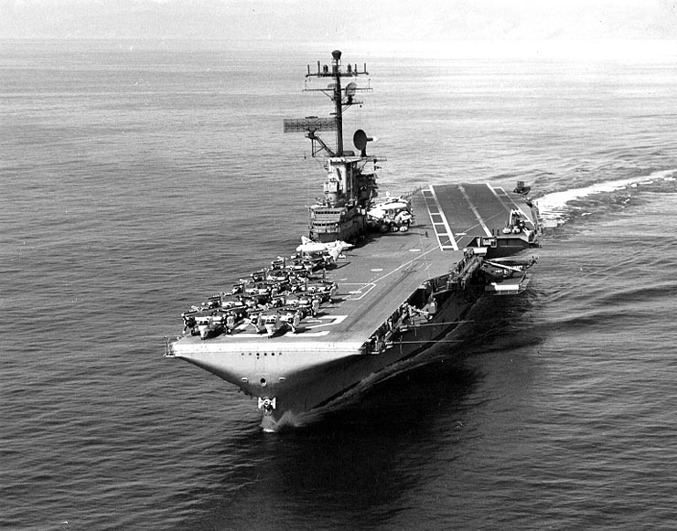 The U.S. Navy aircraft carrier USS Bennington (CVS-20) underway at sea on 5 March 1965. Bennington, with assigned Carrier Anti-Submarine Air Group 59 (CVSG-59), was deployed to the Western Pacific and Vietnam from 22 March to 7 October 1965.